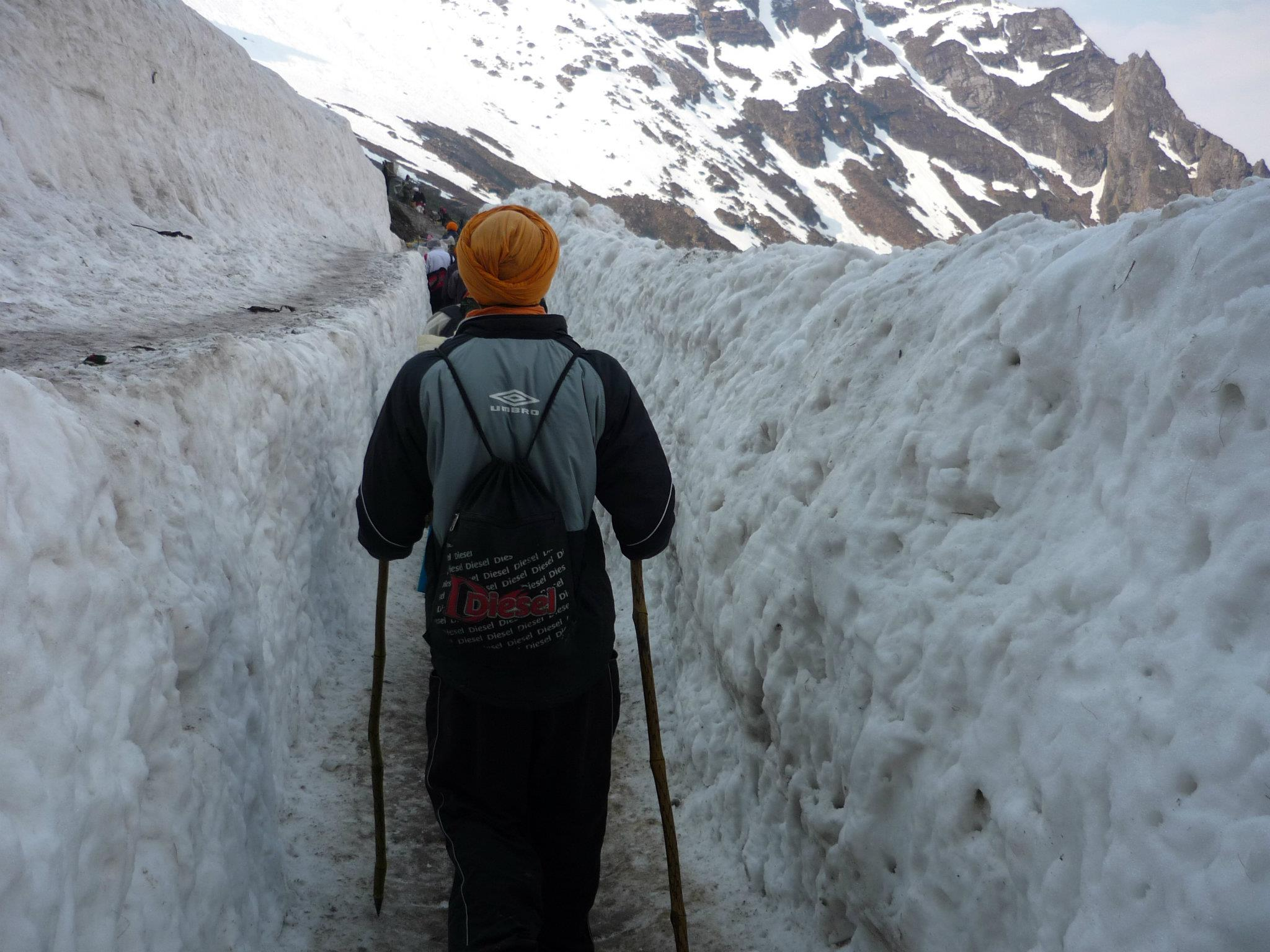 Sikh pilgrims crossing the Hemkund Glacier to reach Hemkund Sahib